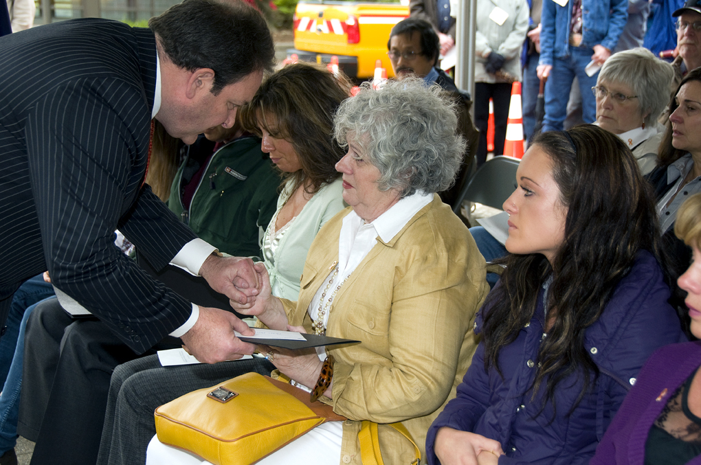 ODOT Director Matt Garrett expresses his sympathies to the families of the three fallen workers.